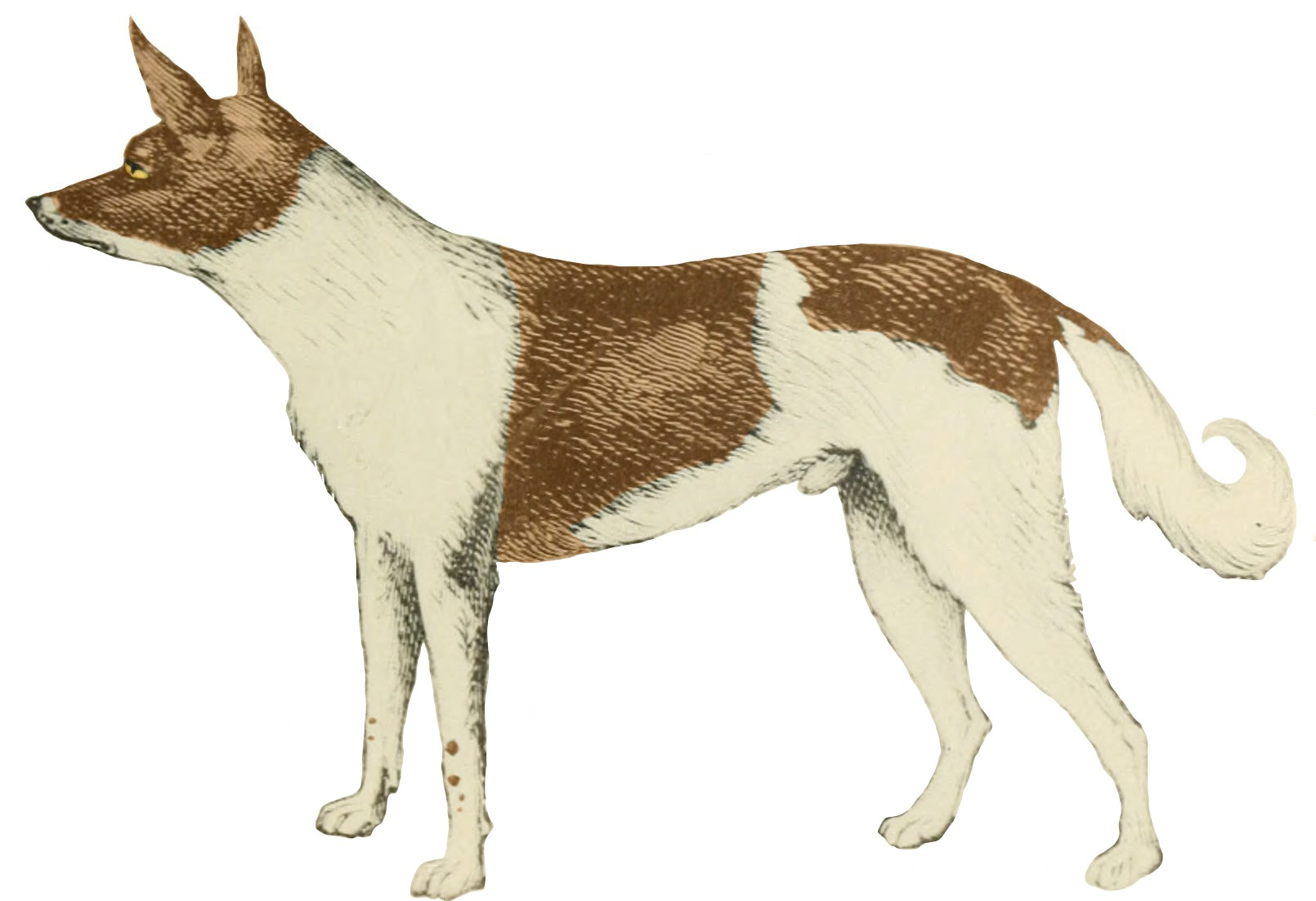 Coloured version of piebald fuegian dog